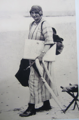 picture by the Bernese artist Bertha Züricher in the Archivarte Galerie im Breitenrain. in the twenties